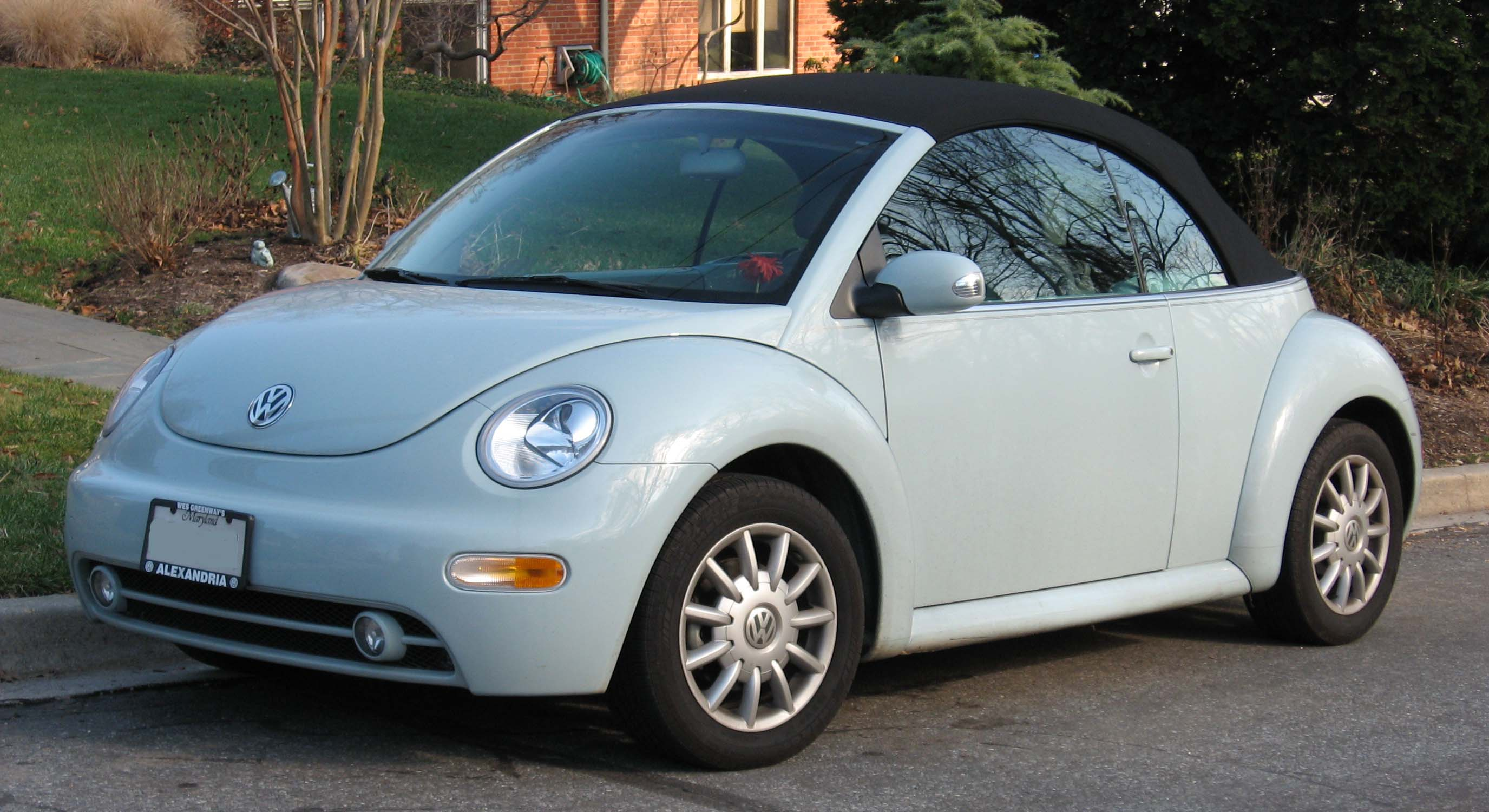 Volkswagen New Beetle convertible photographed in USA.